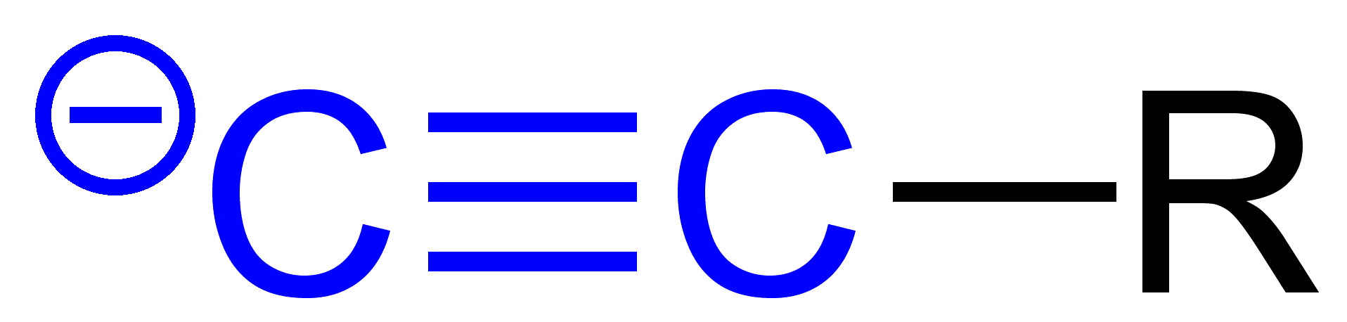 Acetylide_Structural_Formulae